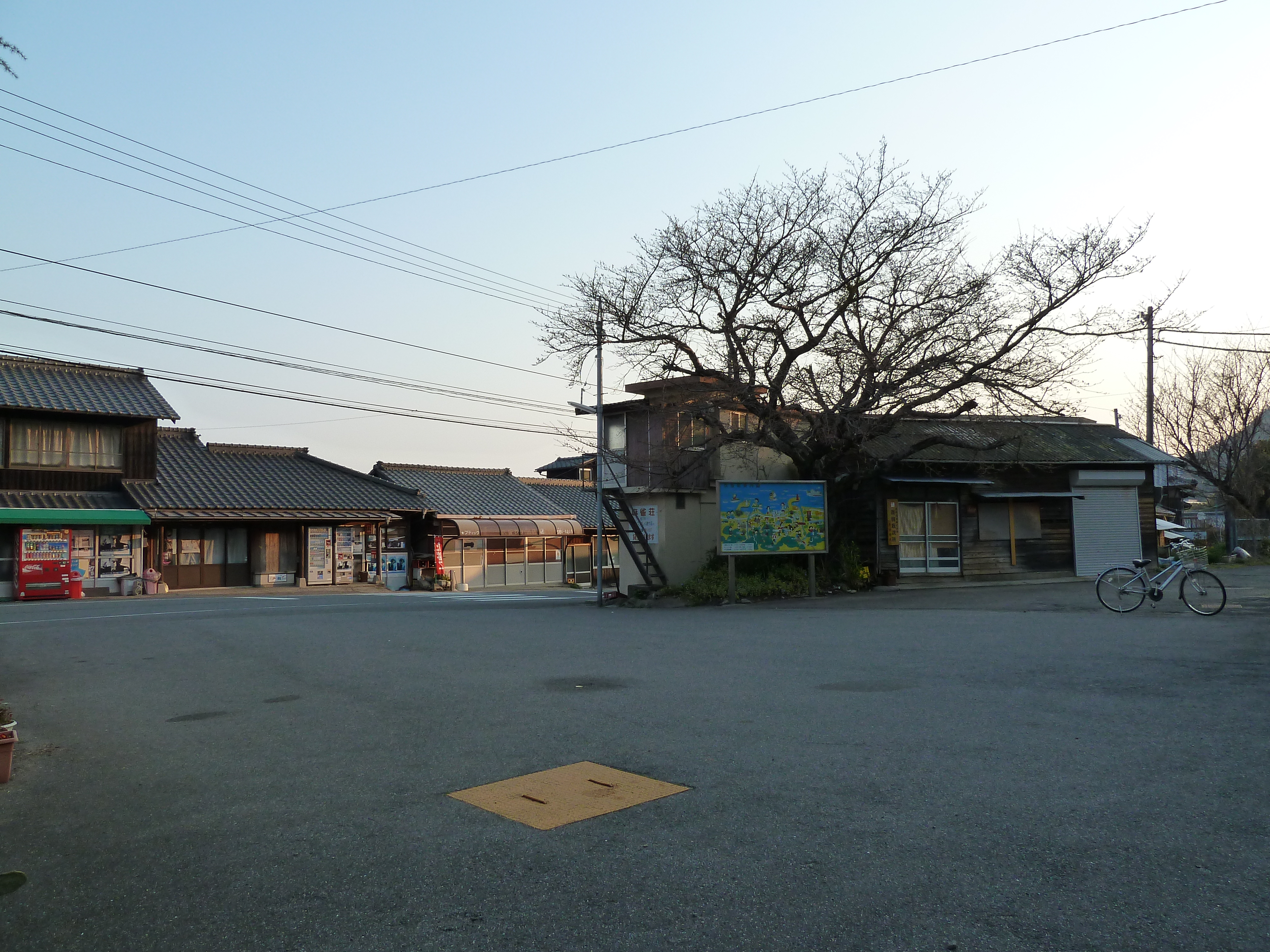 Iyo-Kaminada Station front